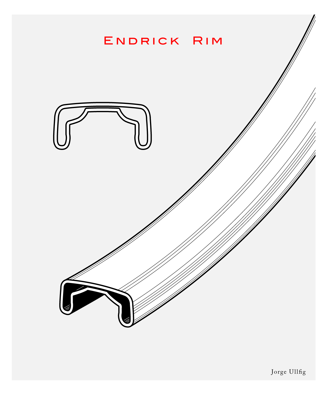 Cutaway diagrams created in illustrator and photoshop from public domain data information obtained from several internet sources and printed Atlases.